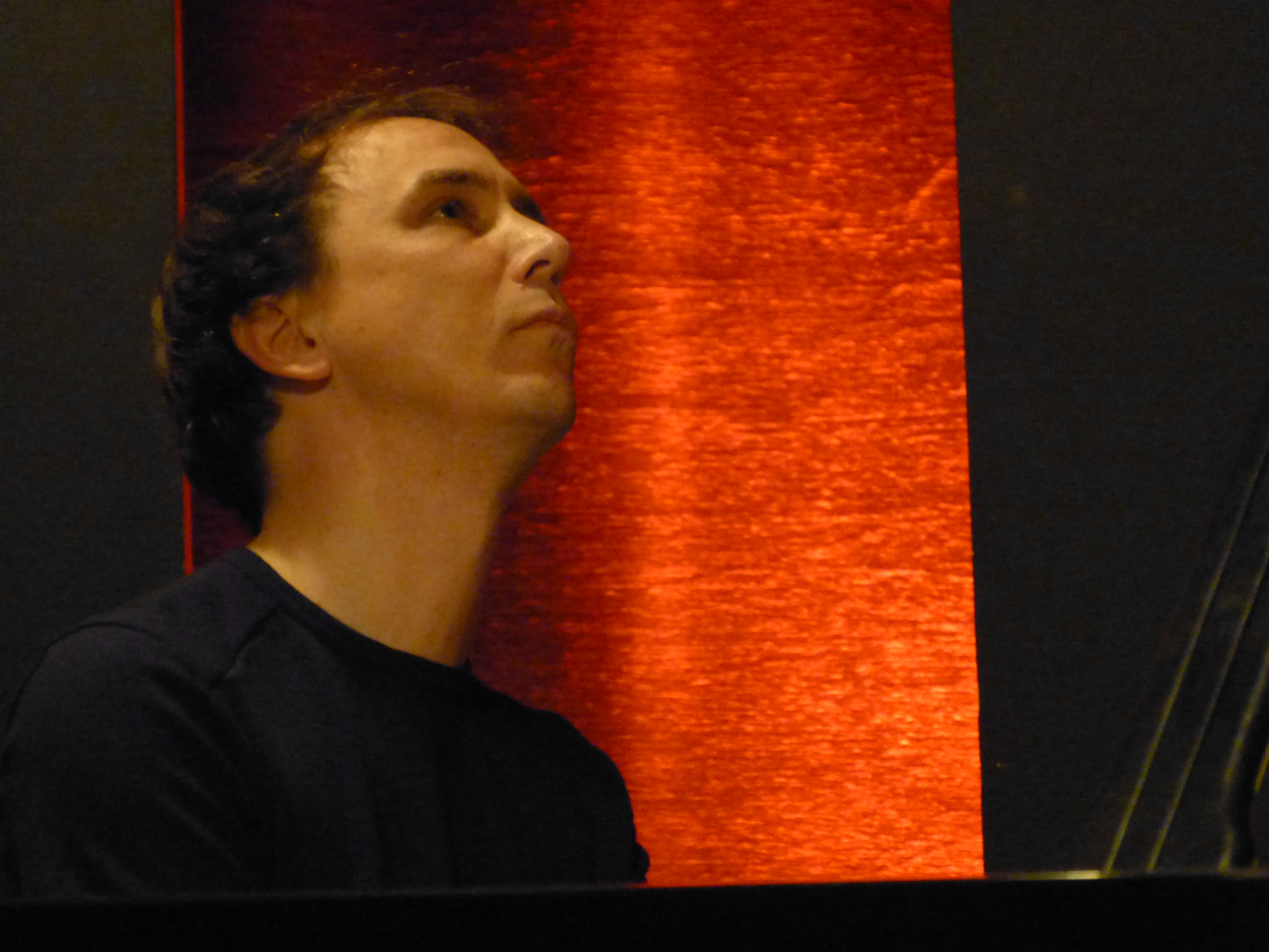 Jürgen Friedrich in concert at Michael Rüsenberg's jazzcity.de show at Loft (Cologne), Germany, January 17th, 2014